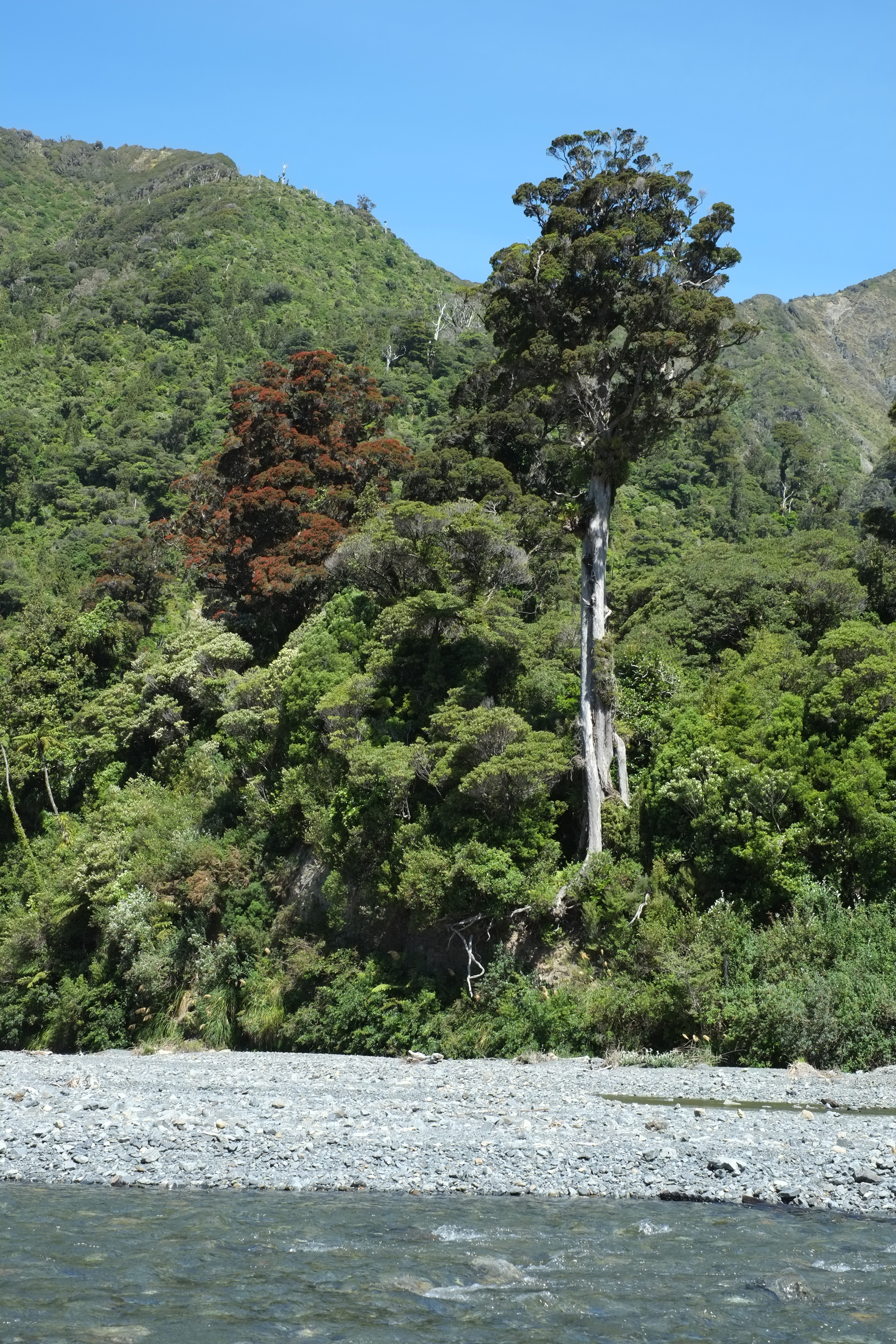 Orongorongo Valley - flowering rata in the background, Orongorongo River in the foreground